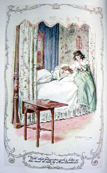 Sense and Sensibility, (Jane Austen novel) ch 29 : Elinor read with great indignation Willoughby's letter